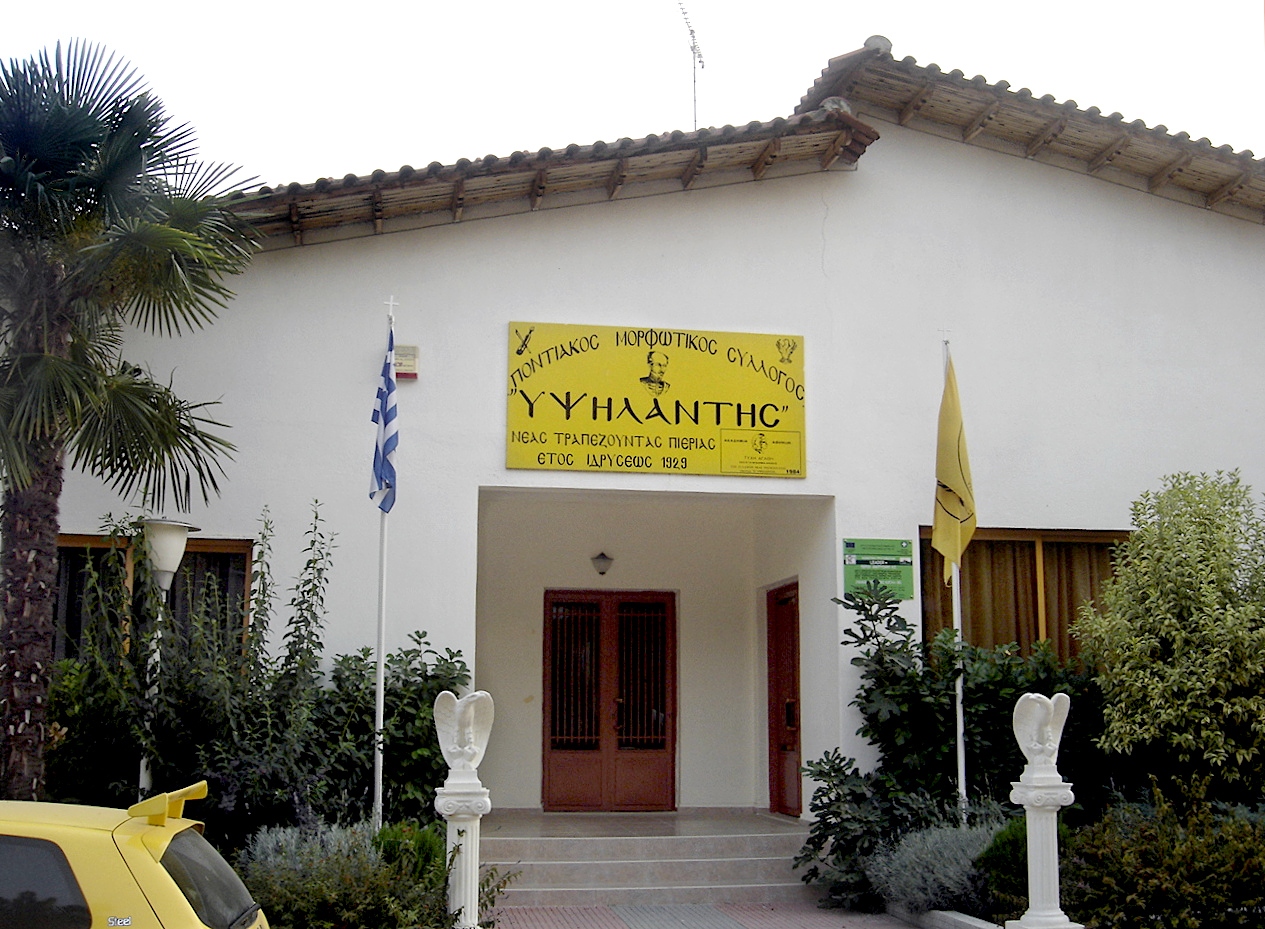 The Association of Pontians building in Nea Trapezous.